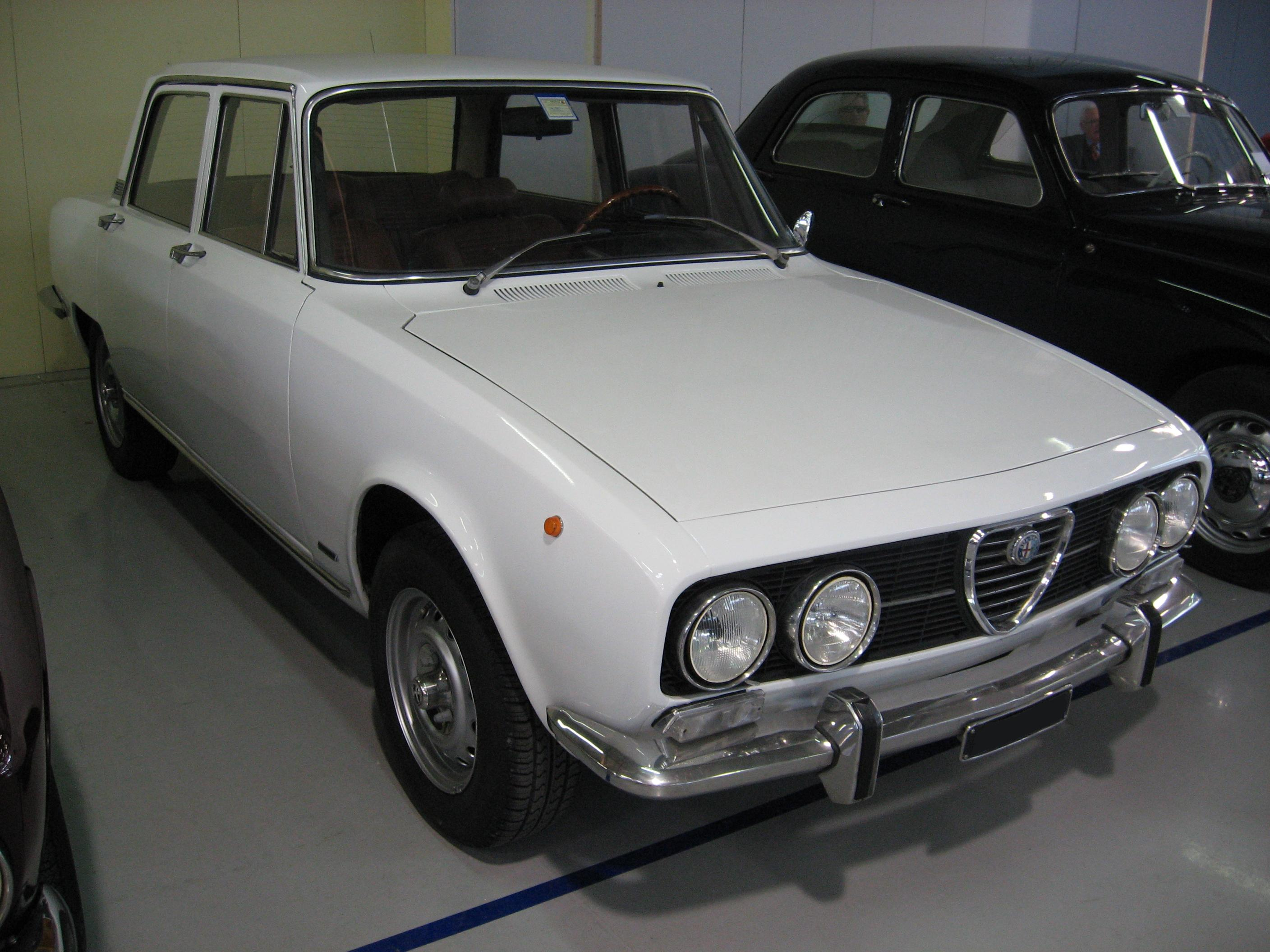 Subject:Alfa-Romeo_2000-Berlina Author: Luc106 Date: 18th March 2007 City/Country: Forlì (Italy) Event: Old Time Show I release all rights in the public domain.